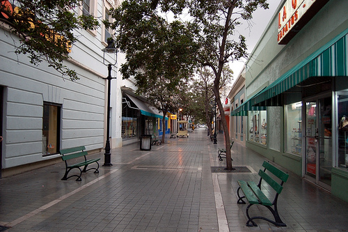 Picture of Paseo Atocha in Historic Ponce. Ponce, Puerto Rico